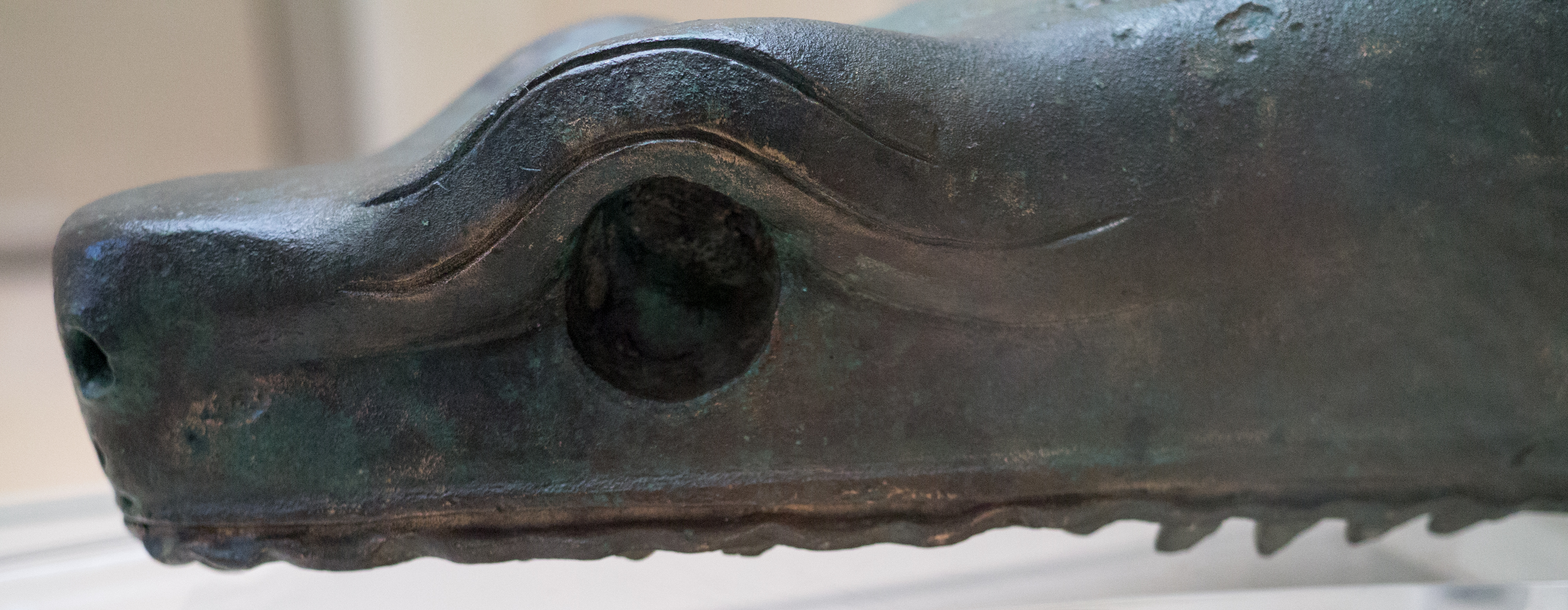 Head of the Serpent Column